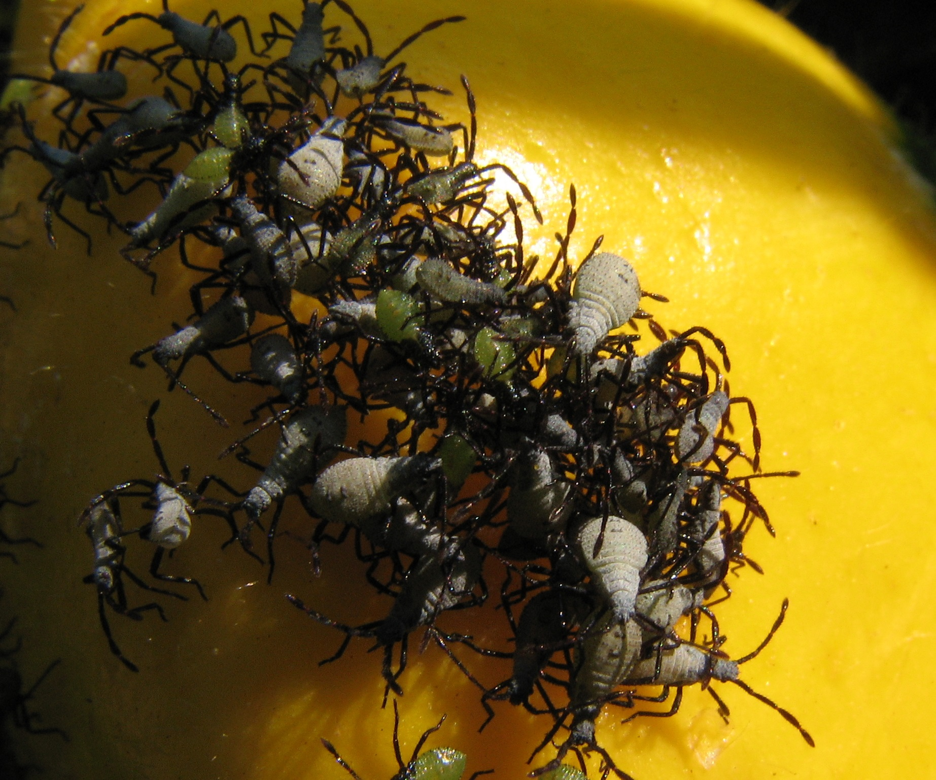 Squash bug nymphs (Anasa tristis) on squash. Pennypack farm, Horsham, Montgomery County, Pennsylvania, USA.